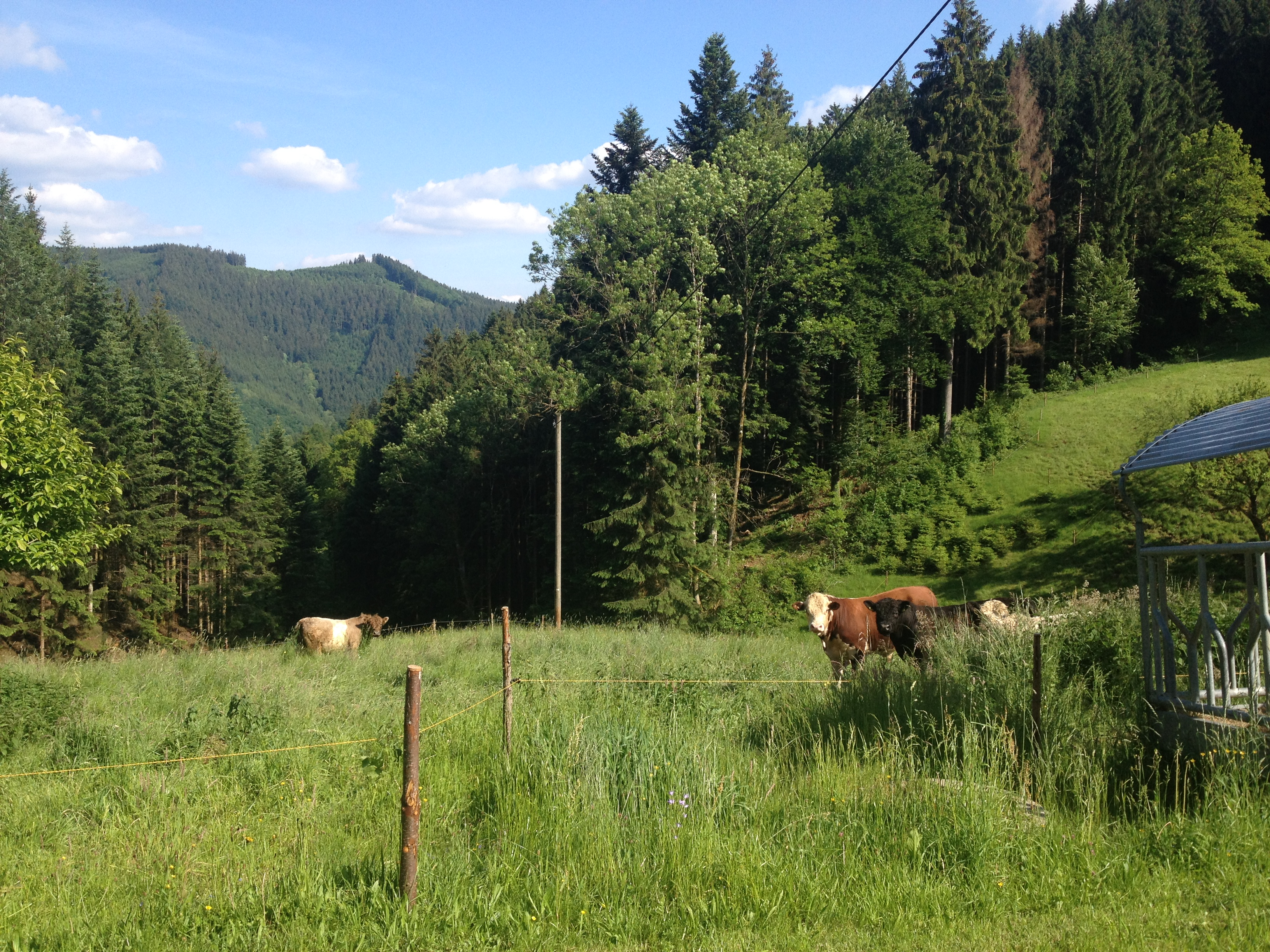 landscape Oberwolfach